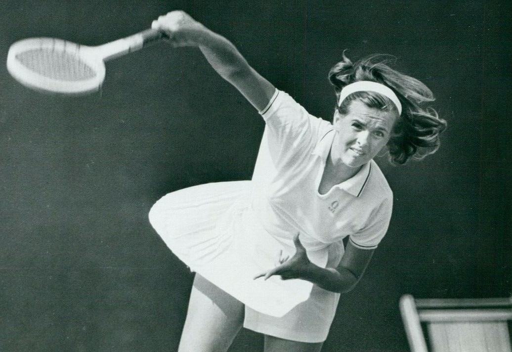 1968 Mary Ann Eisel US Open Doubles Tennis Champion Original News Service Photo